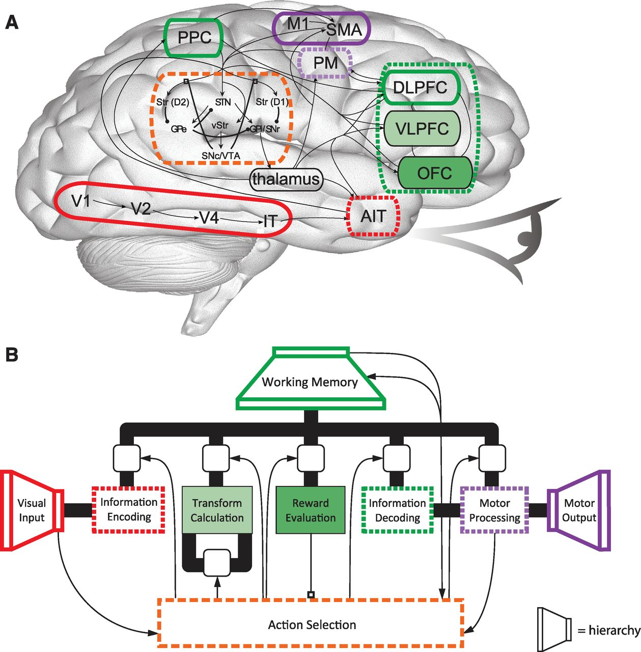 The anatomical and functional architecture of Spaun.